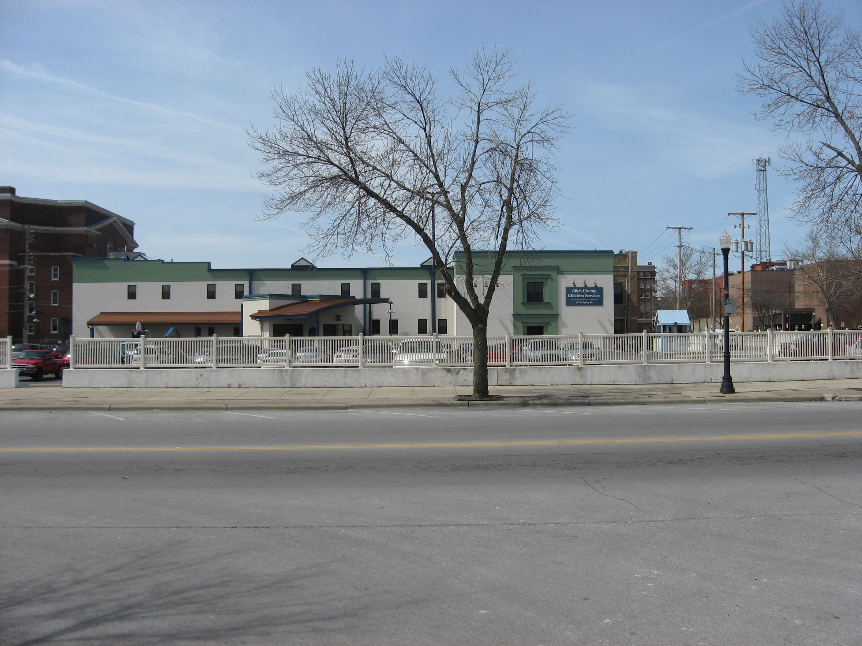 Site of the Dorsey Building at 208 S. Main Street in Lima, Ohio, United States. Built in 1899, the building is listed on the National Register of Historic Places, even though it has been destroyed.